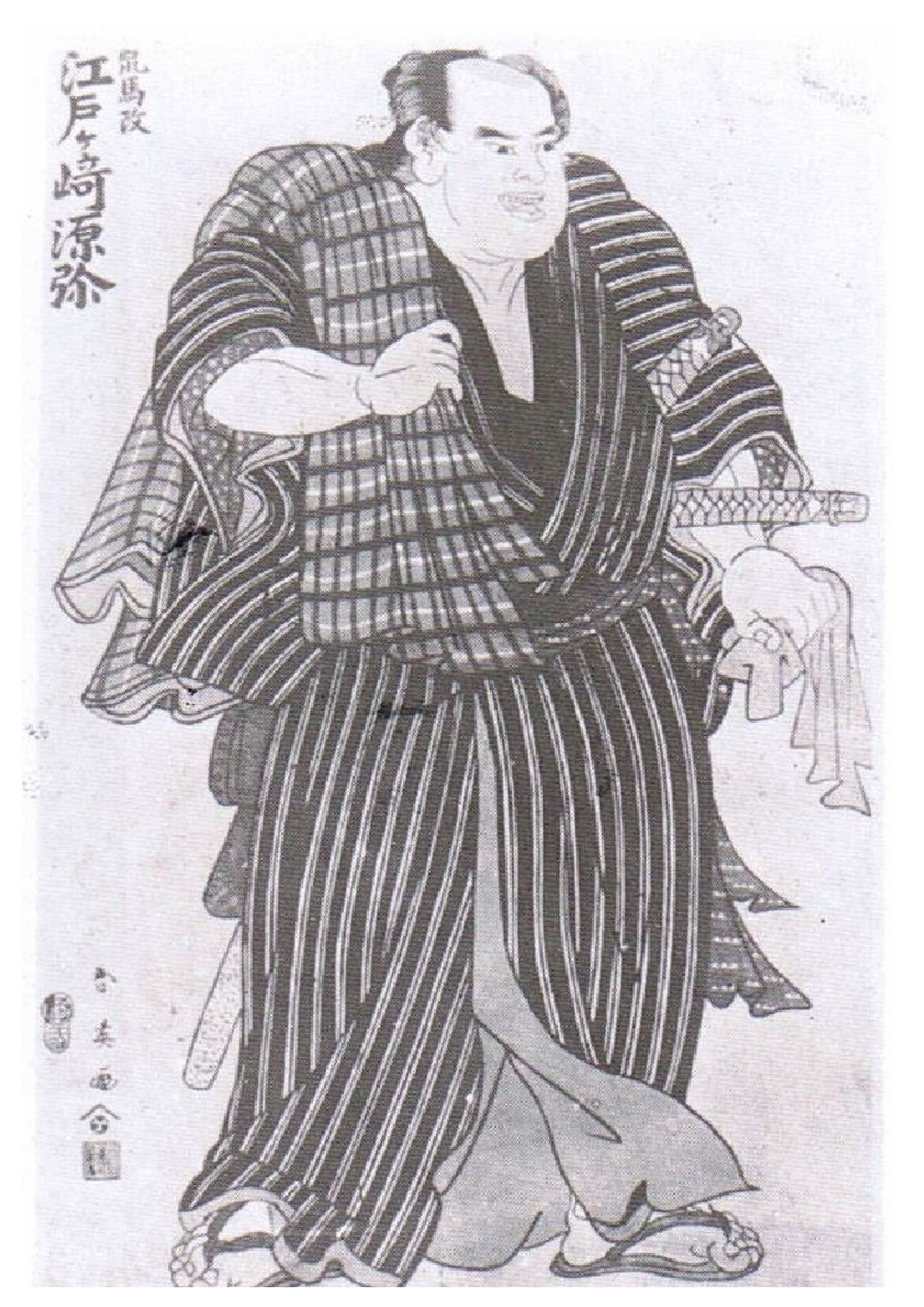 Edogasaki Kenya (1771-1812), A famous Sumo-wrestler in Edo period.